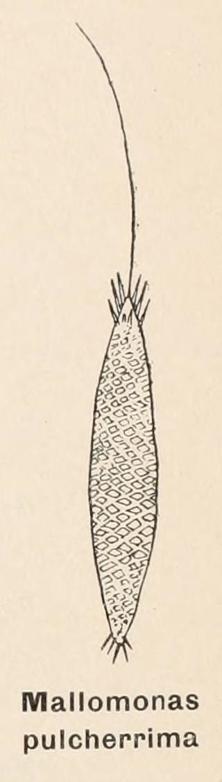 Title: Album général des diatomées marines, d'eau douce ou fossiles : album représentant tous les genres de diatomées et leurs principales espèces Year: (190-?) ((190s) Authors: Coupin, Henri, b. 1868 Subjects: Diatoms Publisher: Paris : H. Coupin Text Appearing Before Image: ALG^. PL 2 Text Appearing After Image: Phaeococcus démenti I. CHRYSOMONADINE^ Chromulinnccœ